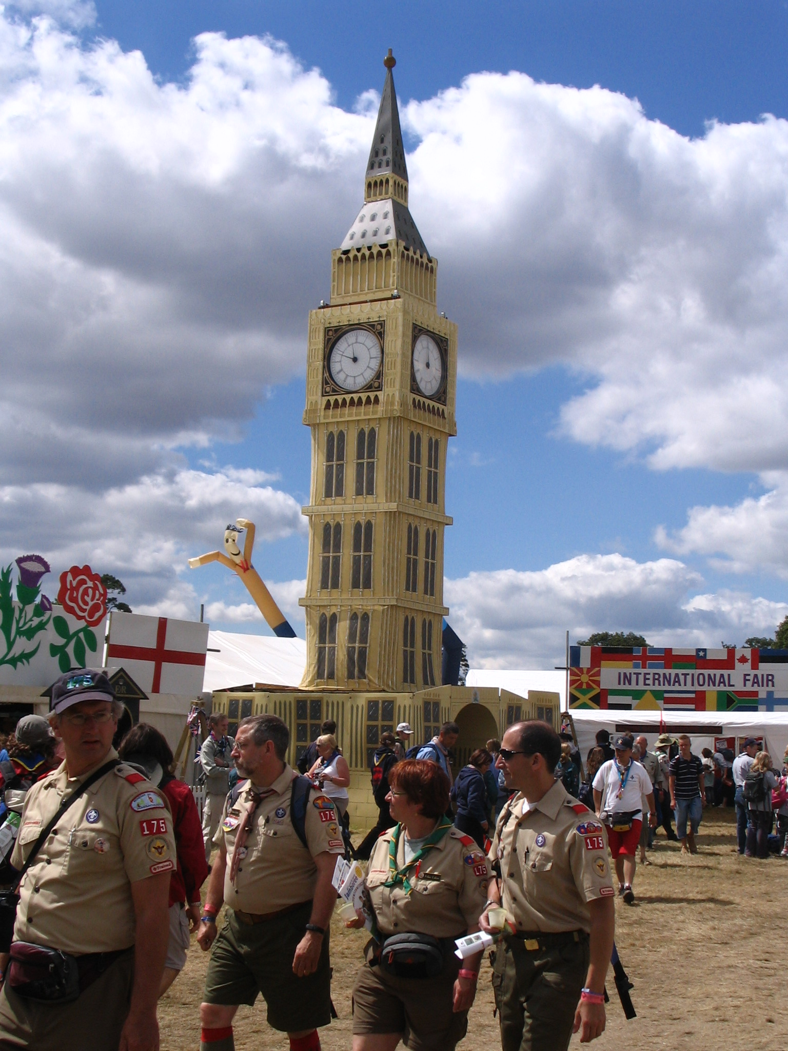 2007 World Scout Jamboree's Big Ben, built by the British delegation. Before Big Ben, some Boy Scouts of America.